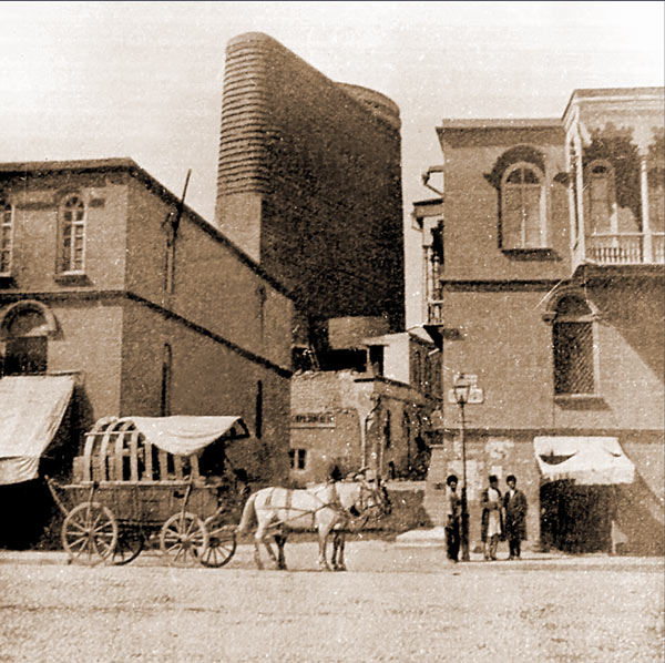 Tower in Baku Azerbaijan.